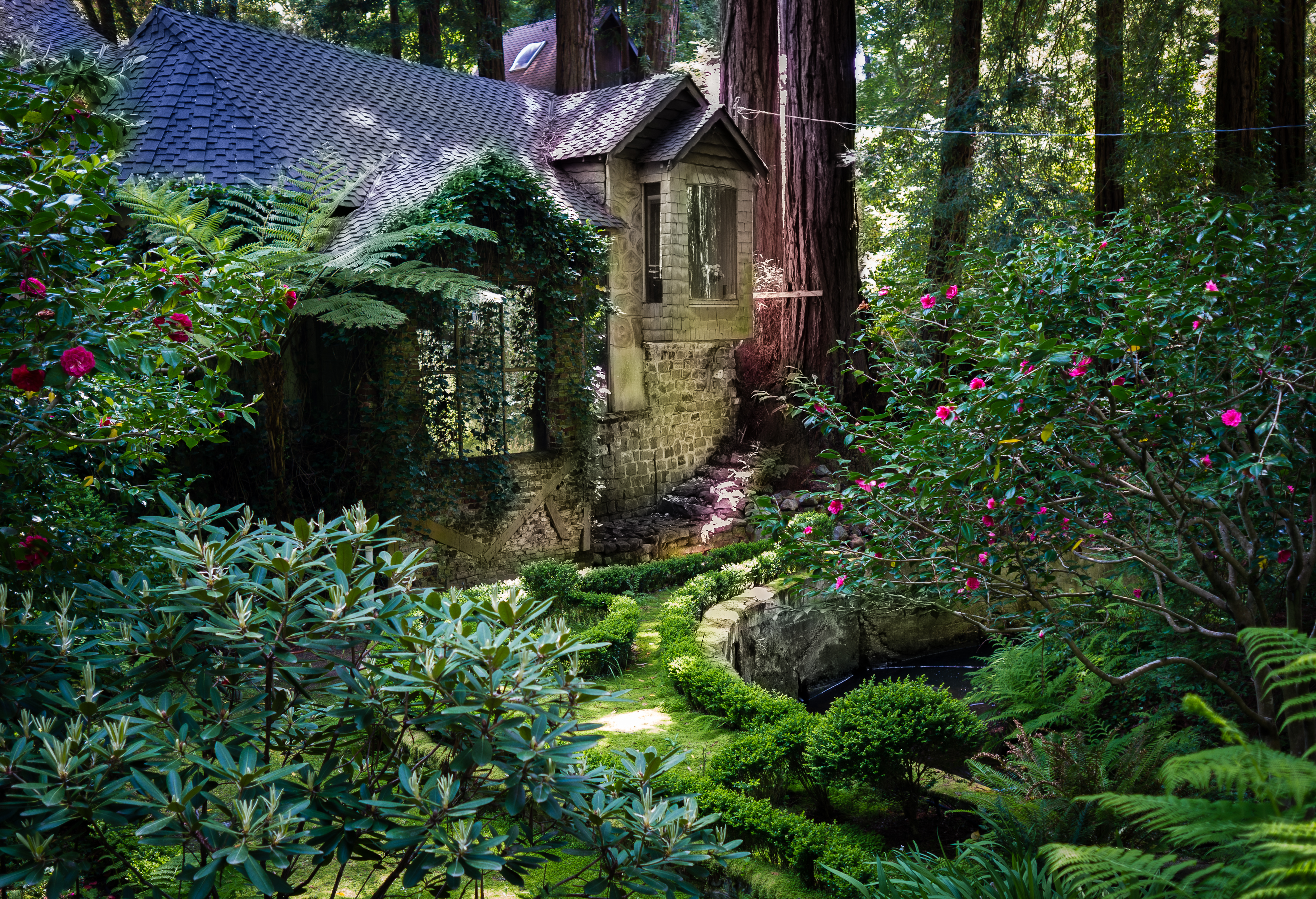 Close to Old Mill Park and Mill Valley Public Library, the setting of this house is very typical of the houses sprinkled amongst the redwoods of the Cascade Canyon area in Mill Valley.